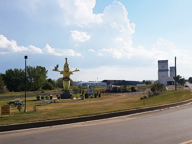 A view of Melita Manitoba and their monument to the claim as Manitoba's banana belt.